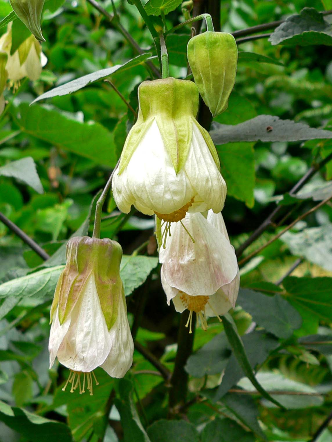 Photo of Abutilon 'Patricia' at the San Francisco Botanical Garden